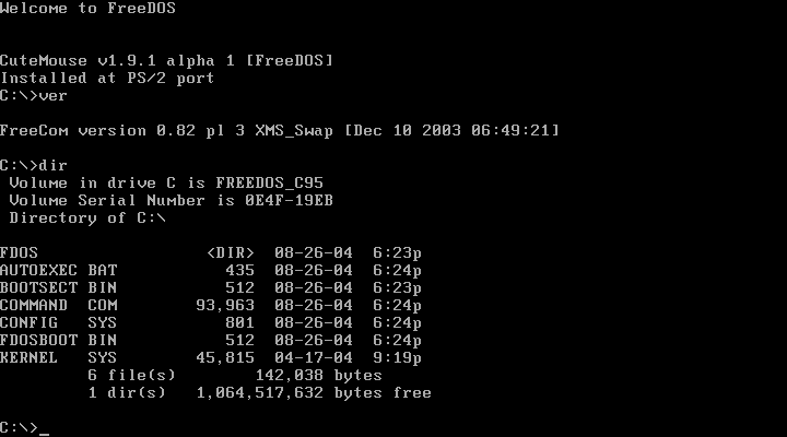 FreeDOS (command line interface) operating system running under Bochs.